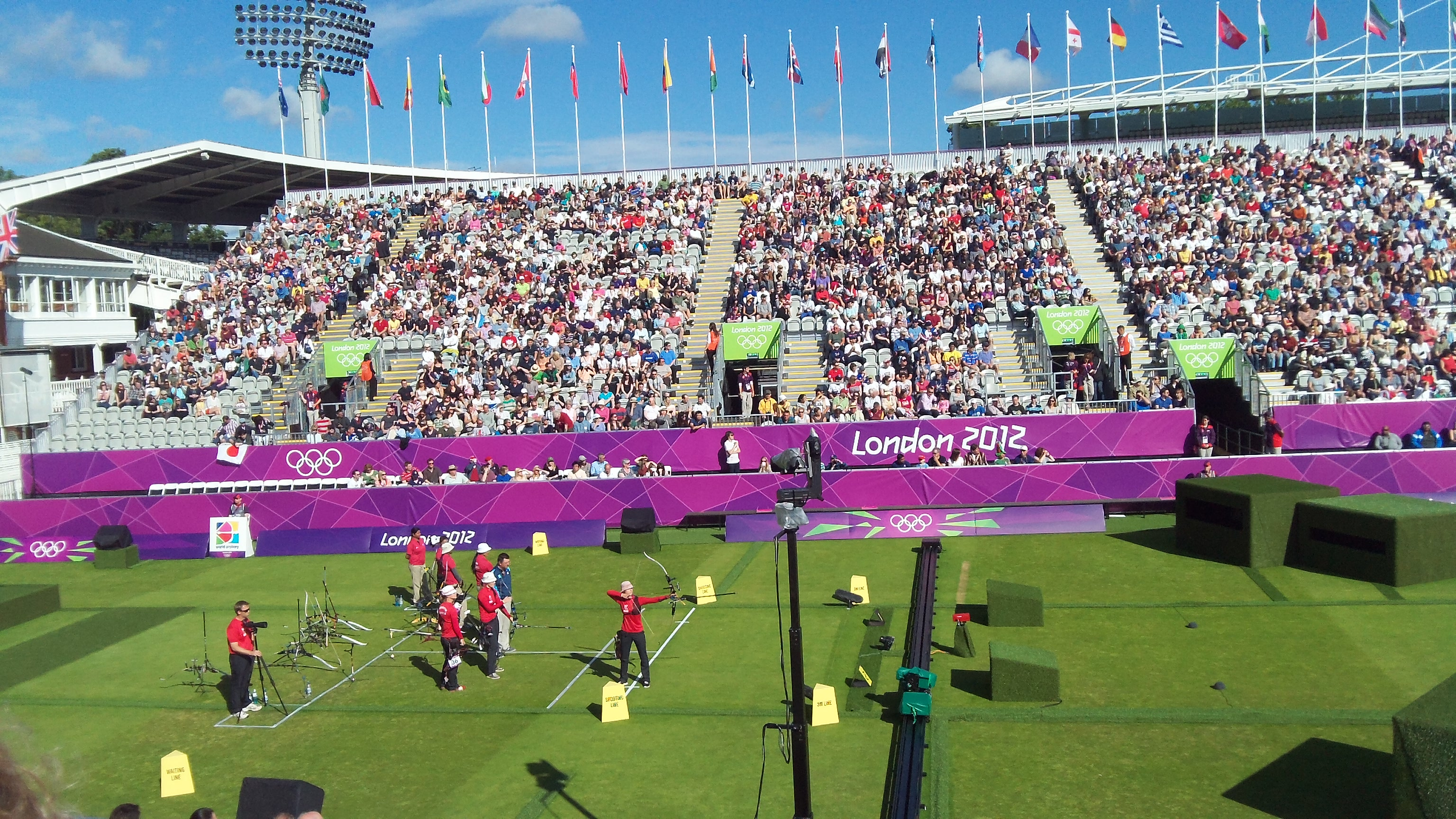 London Olympic Games 2012